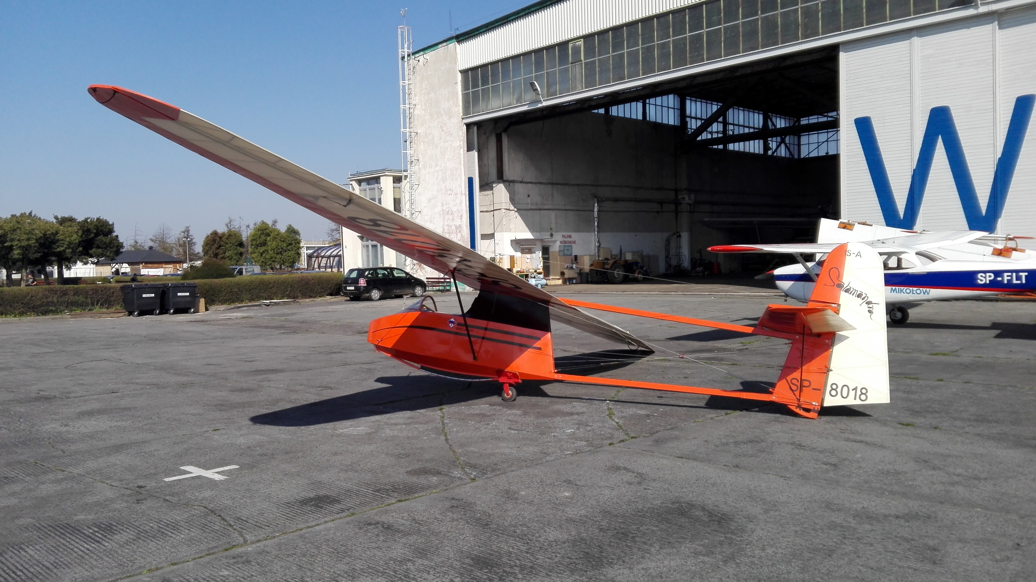 IS-A Salamandra